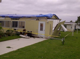 A mobile home in Hobe Sound, Florida, damaged by a tornado, which was spawned by the convergence of a cold front and moisture from Hurricane Rina